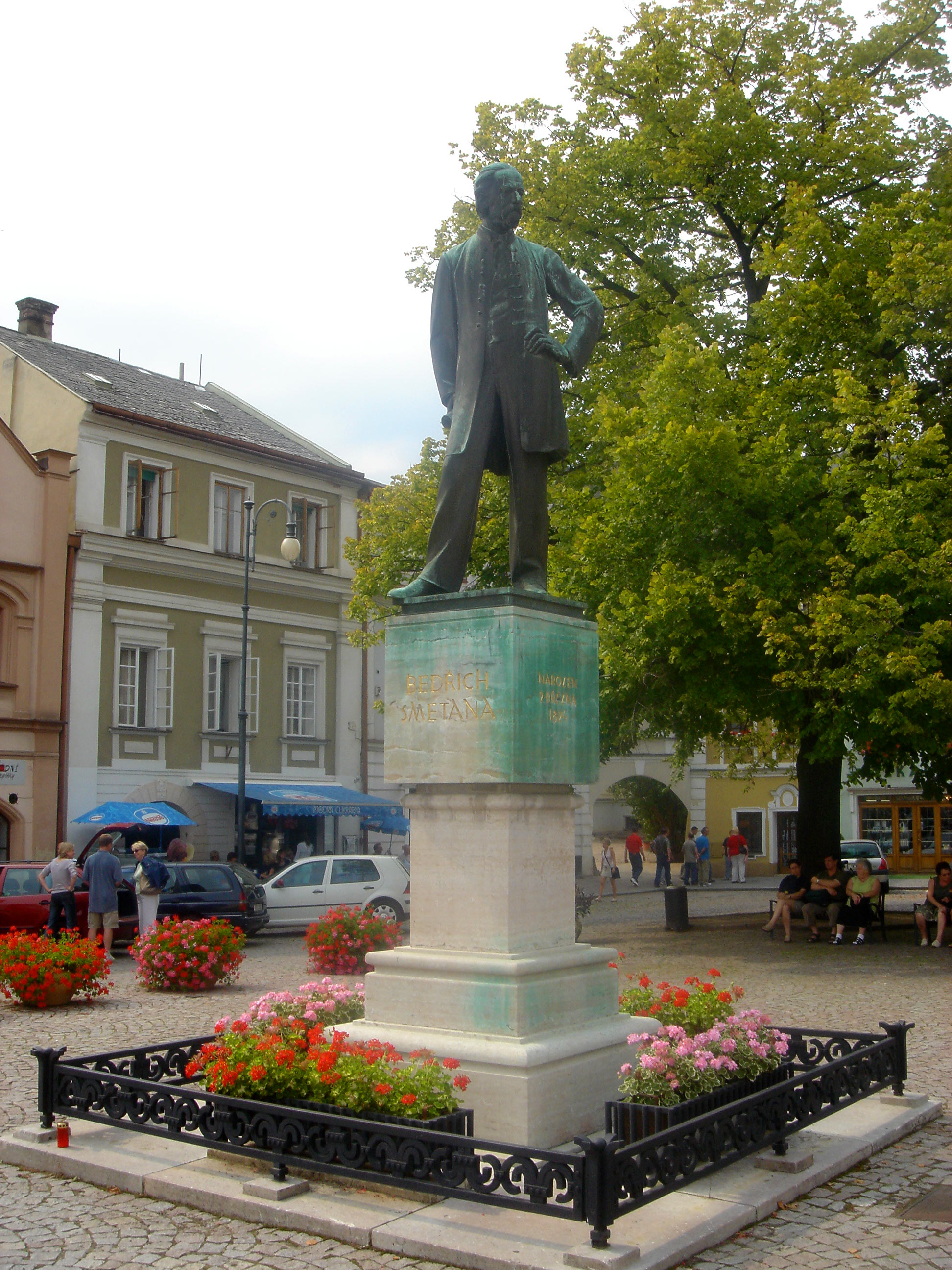 Composer Bedřich Smetana Monument in Litomyšl, (Czech Republic).